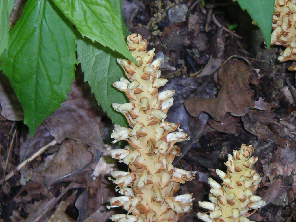 Conopholis americana (squawroot) Summary